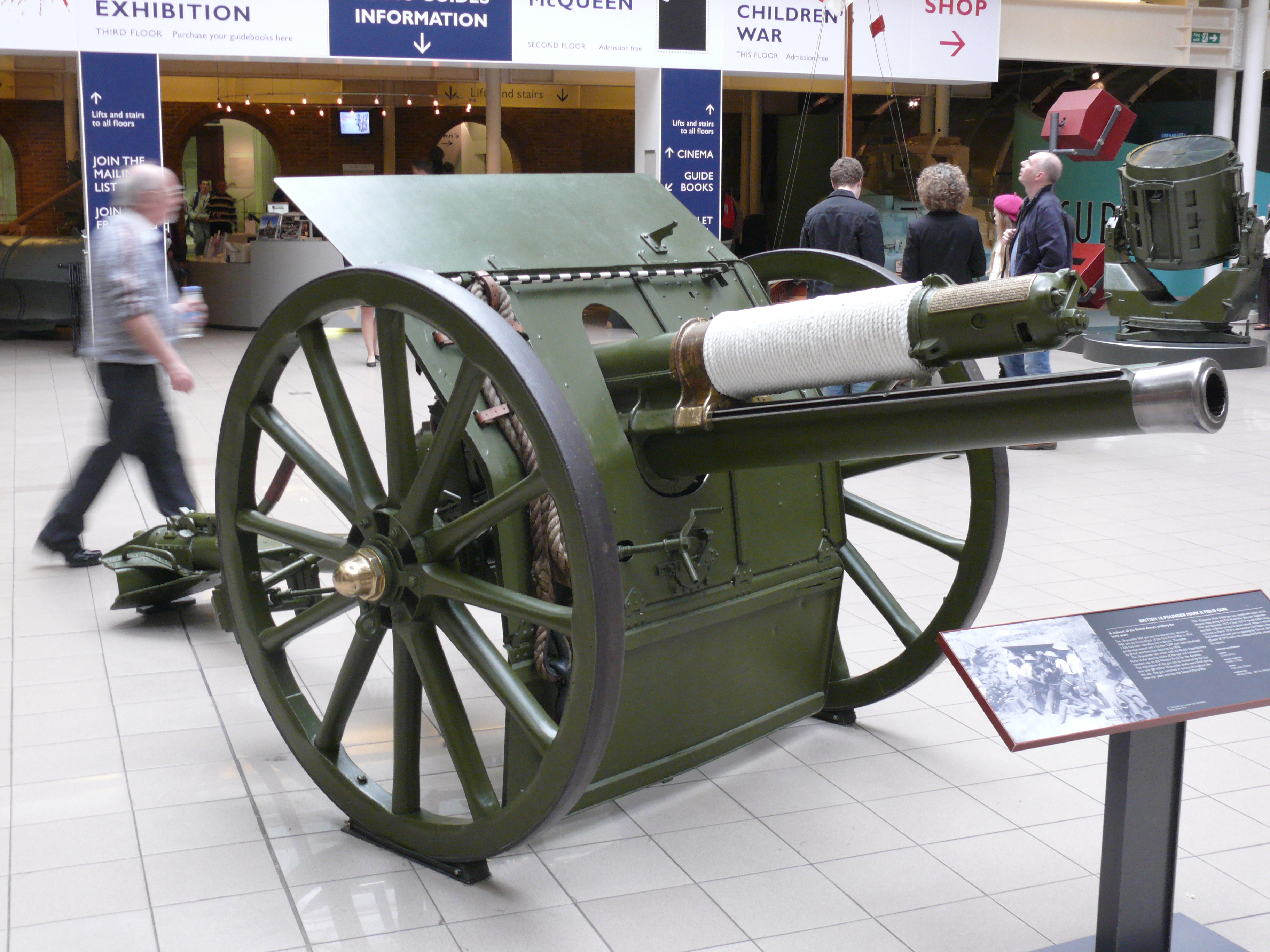 Photograph of British QF 18 pounder Mk II field gun, with hydro-pneumatic recuperator extension, at the Imperial War Museum, London. This gun served on the Western front between September 1916 and November 1917, was sent back to Britain to have its barrel relined after firing 16,153 rounds, and was sent back to France in March 1918 and served until the end of the war.